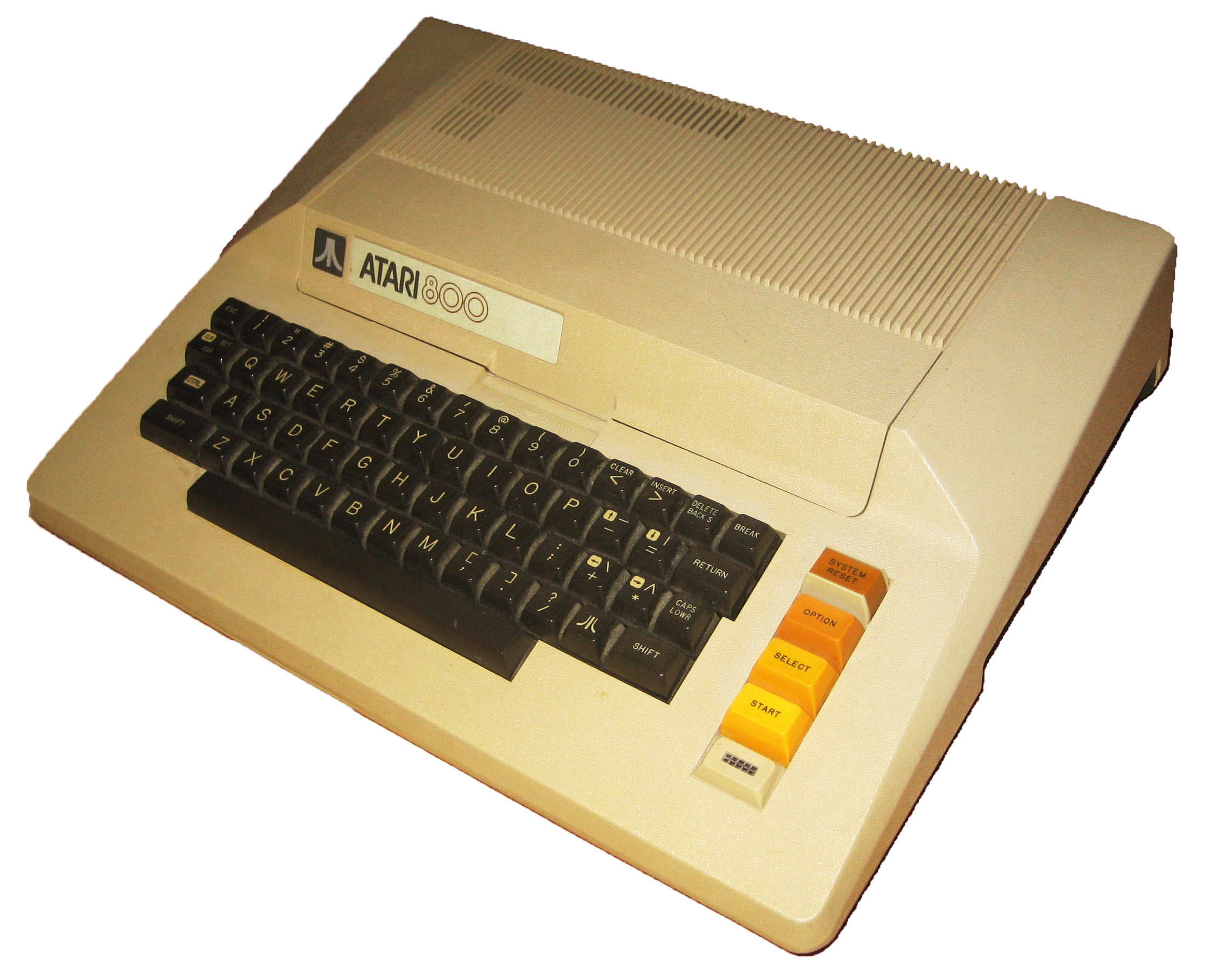 The Atari 800 personal computer. Photo taken by the uploader 081227.